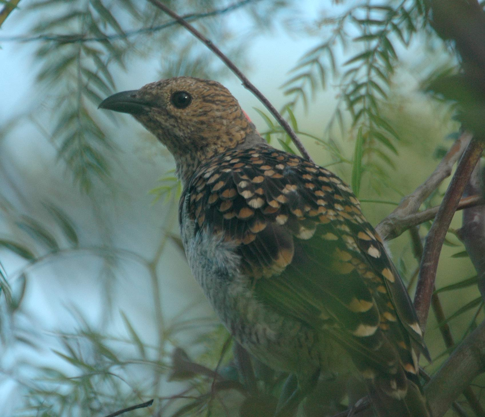 Spotted Bowerbird (Chlamydera maculata) Bowra, SW Queensland, Australia